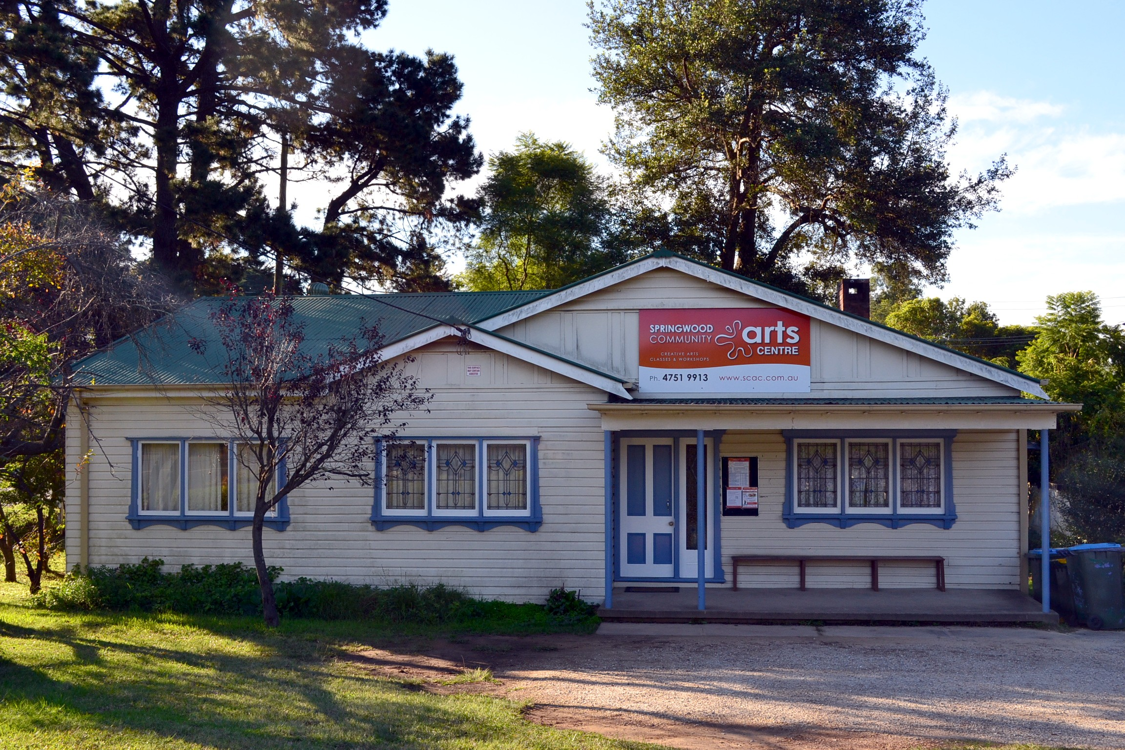 home, springwood, australia